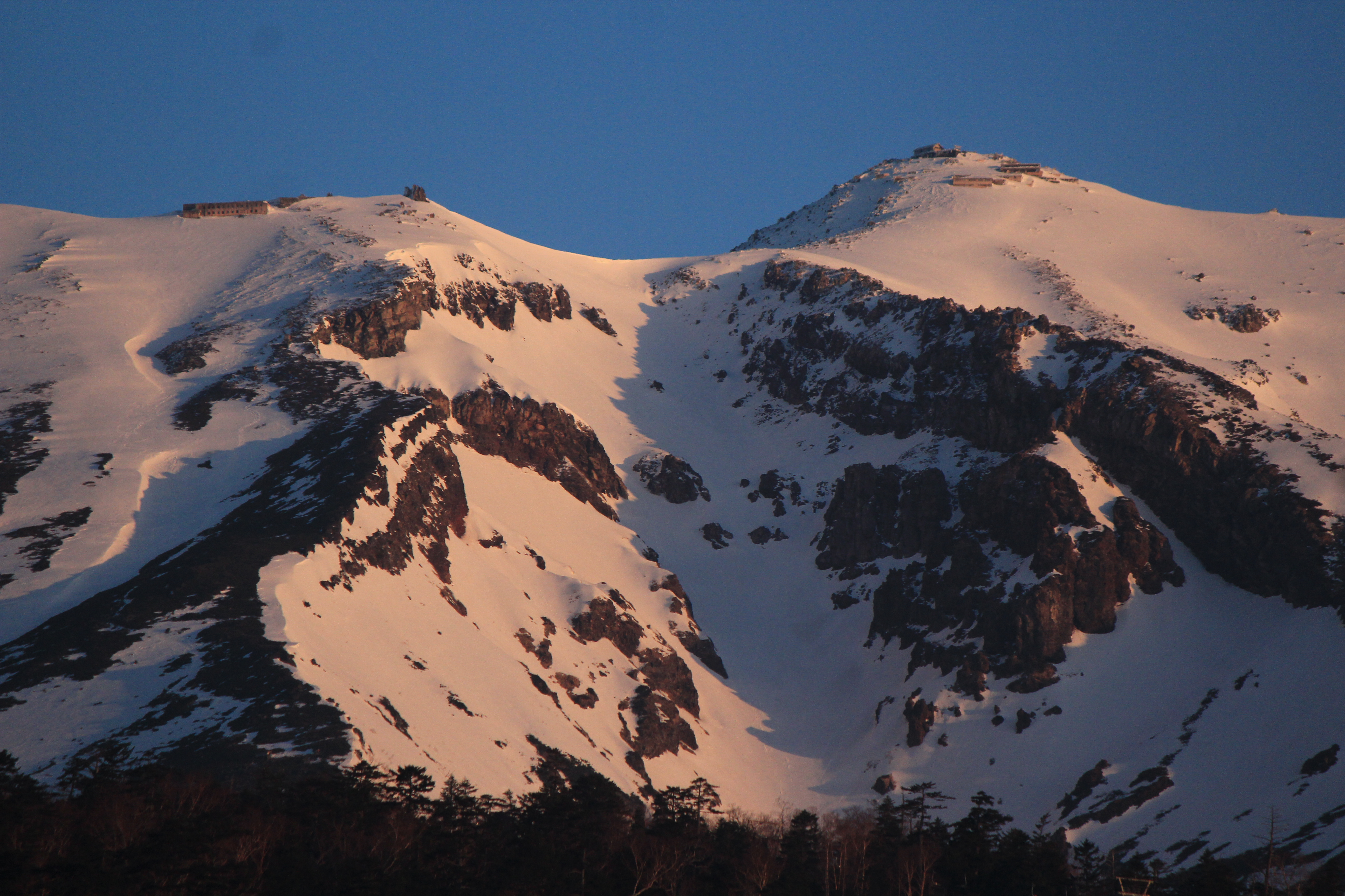 Morgenrot of Mount Ontake seen from Ontake 2240 in Ōtaki, Nagano prefecture, Japan.